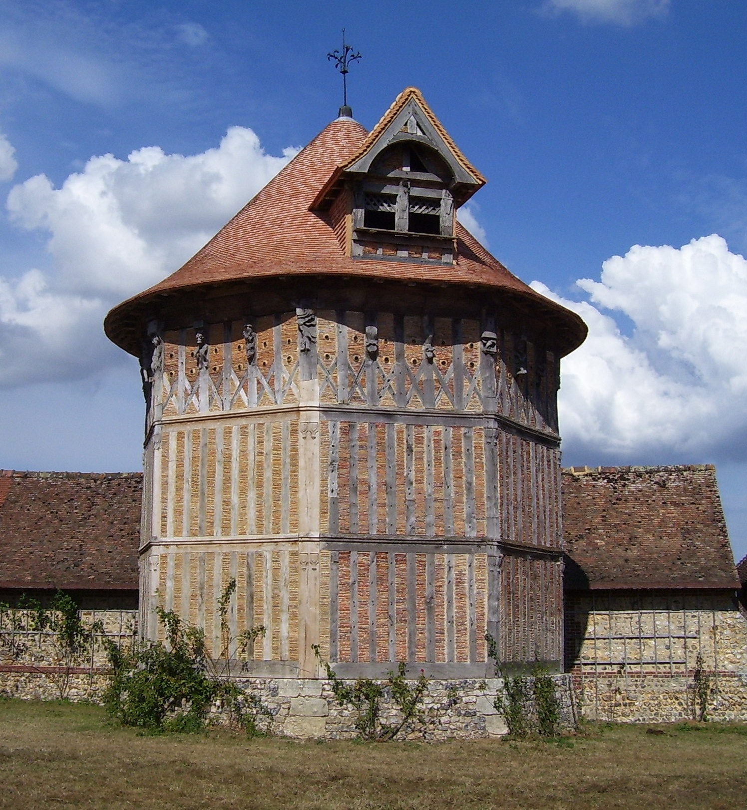 The Colombier of Launay, was a pigeonry built in the 16th century for the noble family Le Sens de Folleville. It is classified as monument historique. The castle of Launay is situated near Saint-Georges-du-Vièvre in the département Eure in the region Haute-Normandie of France.